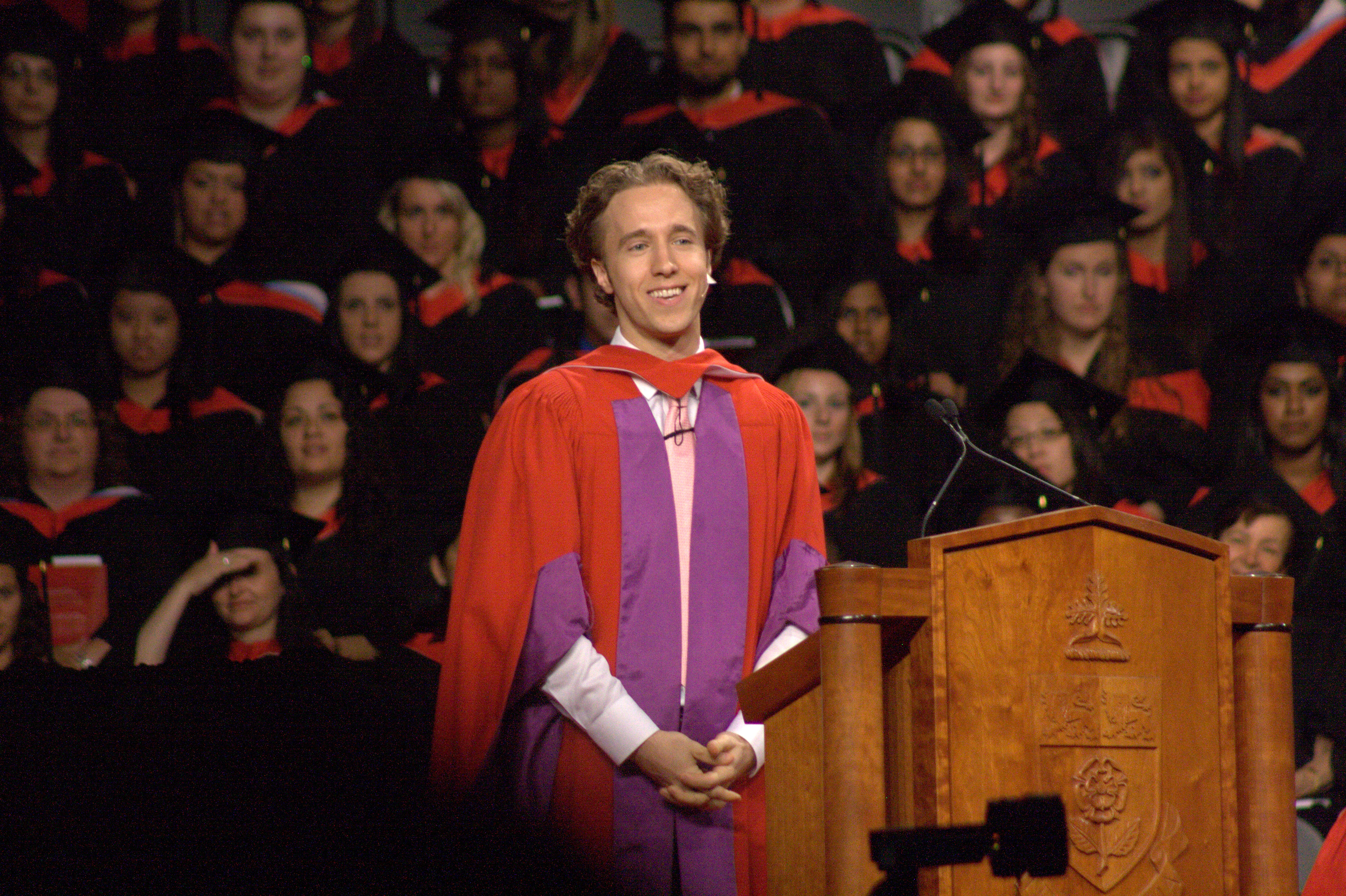 Craig Kielburger Speaking at the York Convocation.